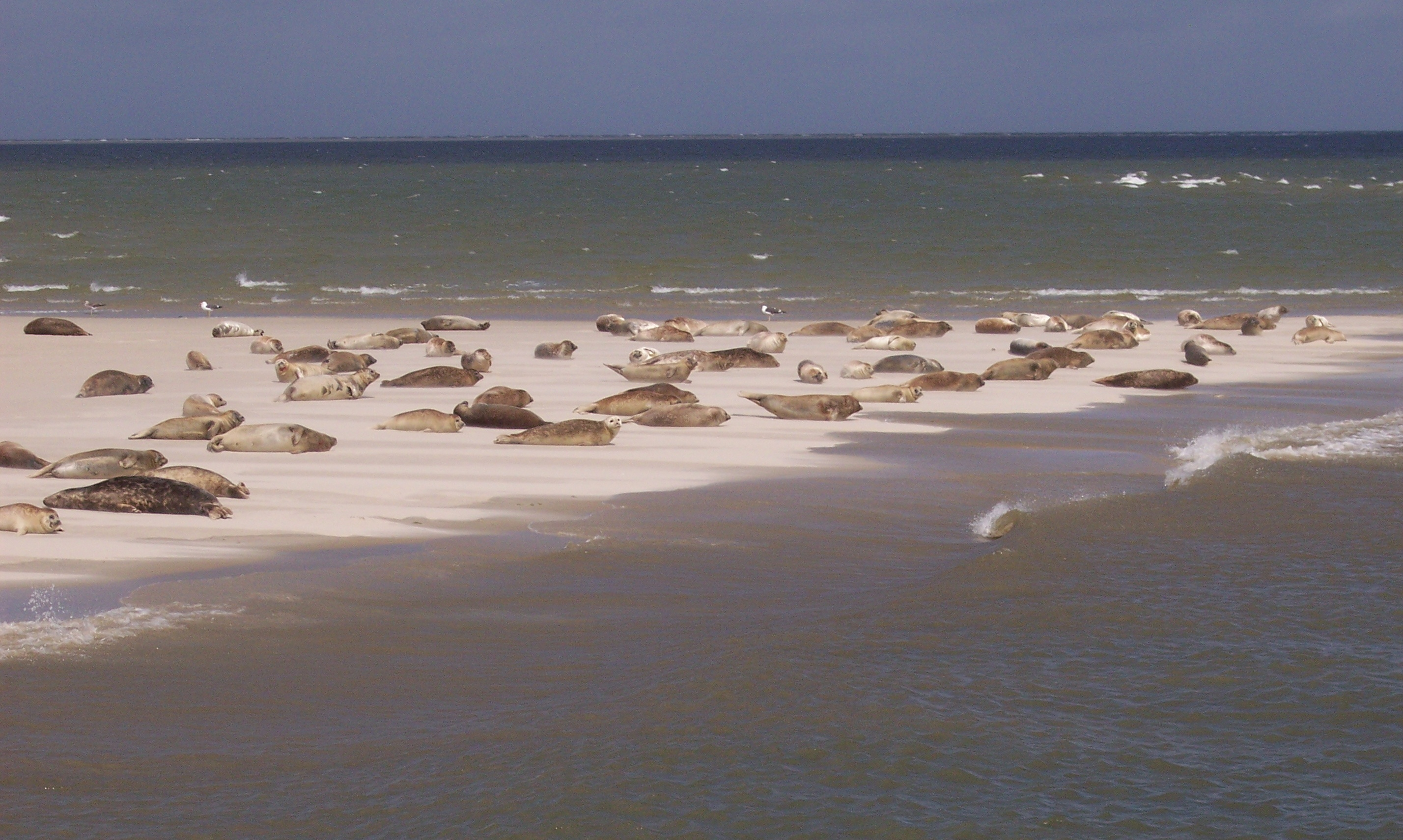 Collection of Phoca vitulina and Halichoerus grypus on a sandplate in the Wadden Sea, Netherlands